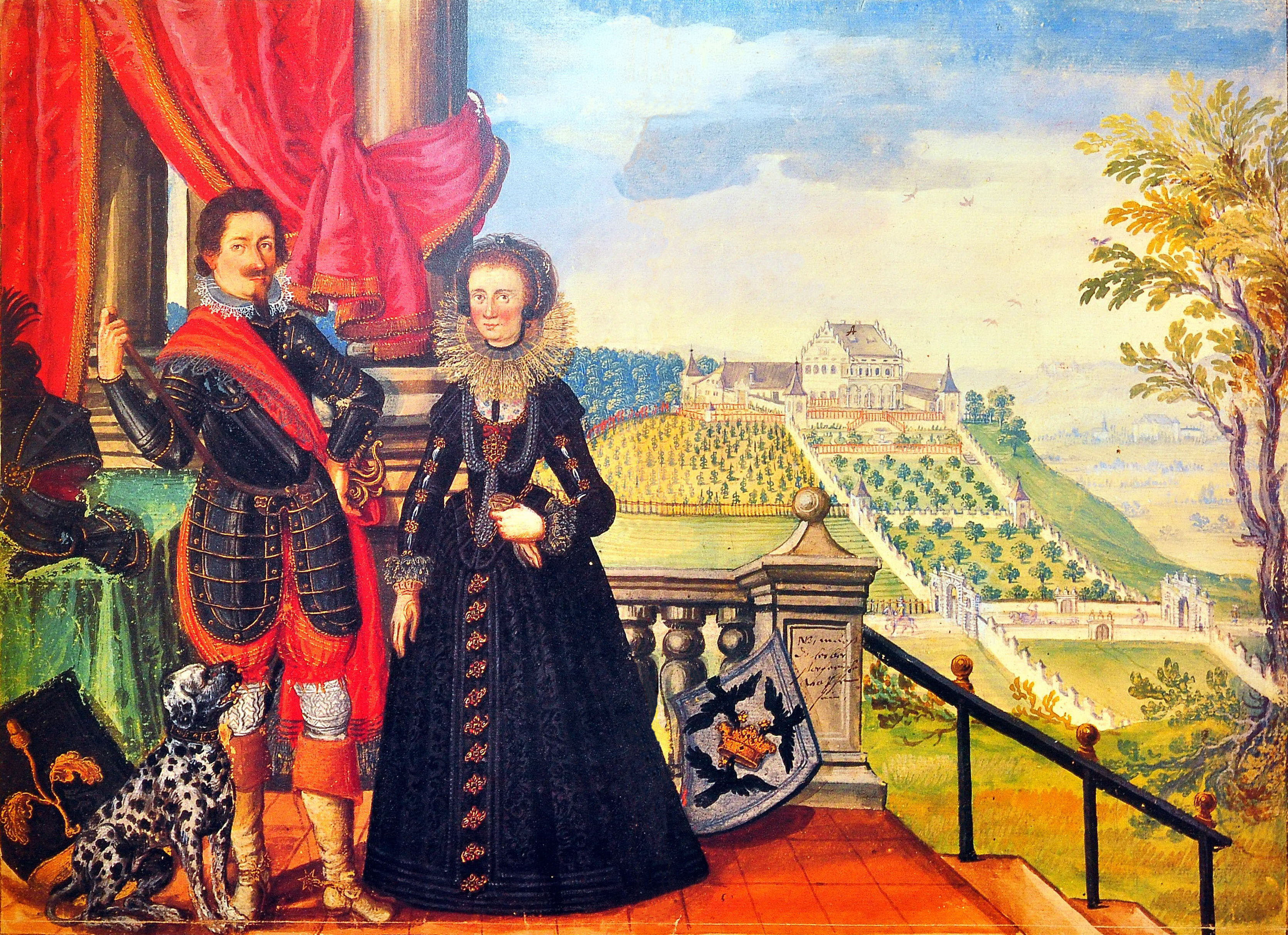 Baron Barthelmae II. Khevenhueller (1594-1649) and his wife Regina, born as baroness von Herberstorf featuring the castle of Annabichl in Klagenfurt am Wörther See) / Carinthia / Austria / European Union.